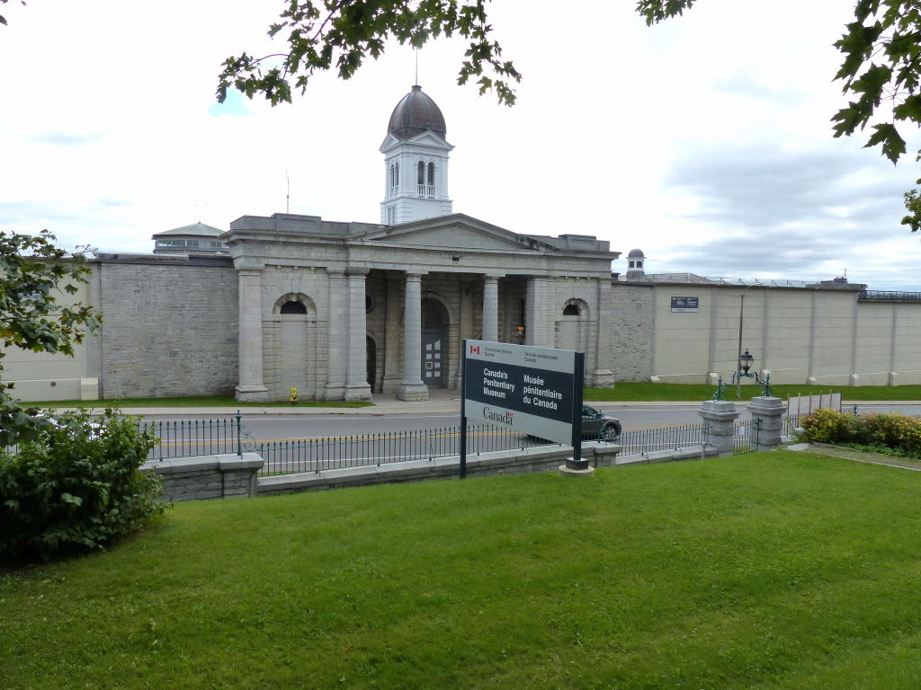 Main entrance on King Street West Kingston Prison was closed and now empty